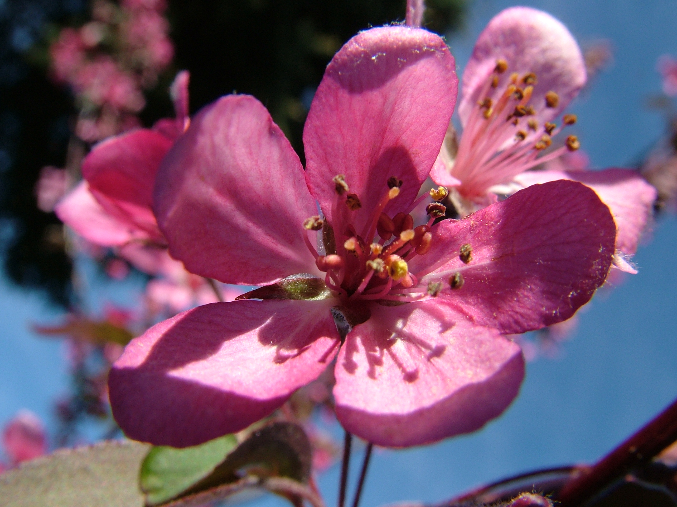 Crab Apple Flower (Malus coronaria) Photographed by: Per Palmkvist Knudsen